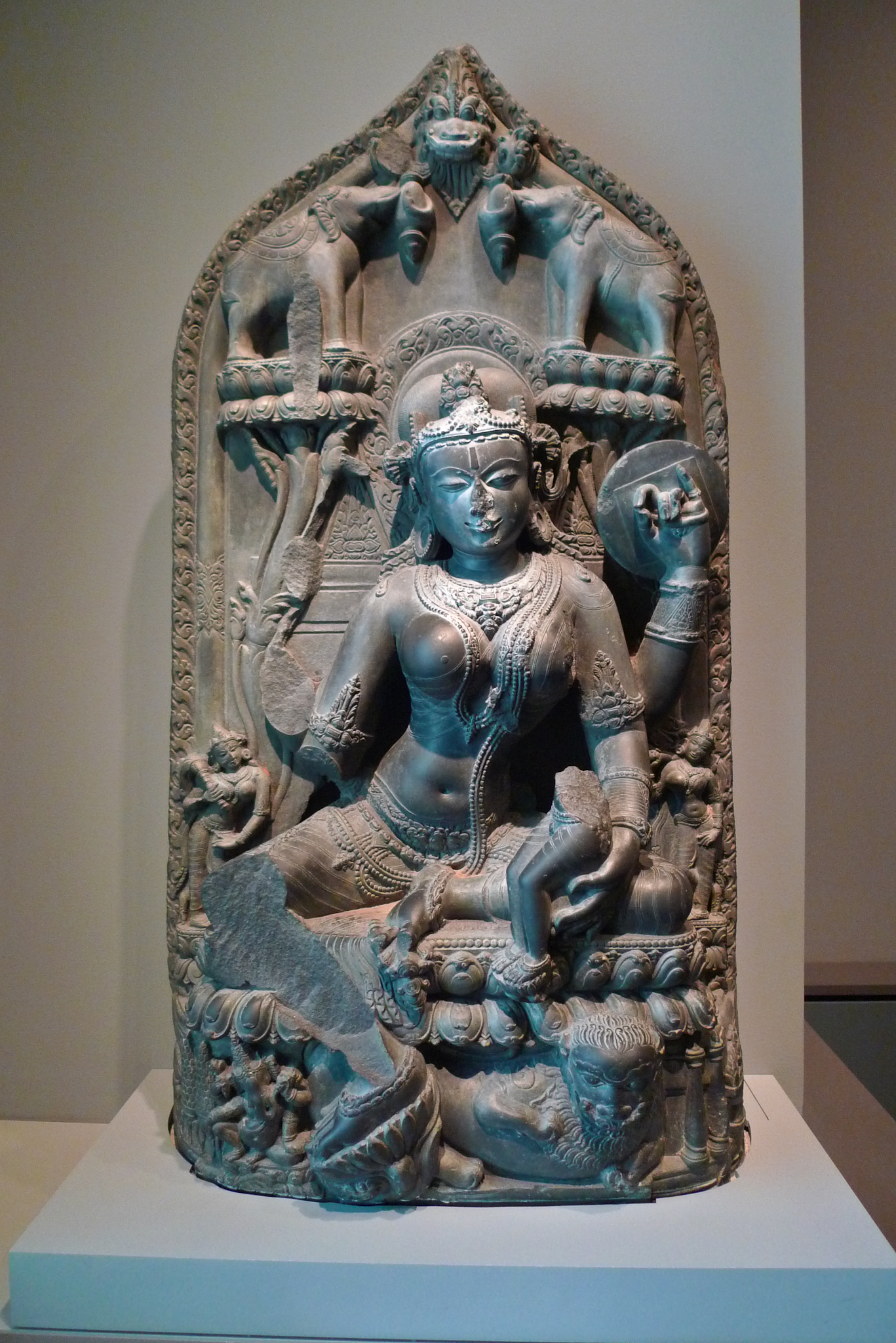 From the permanent collection of the Asian Art Museum in San Francisco. Sculpture art of India, Hinduism The statue is broken. Parvati is considered the goddess of knowledge, arts and music.